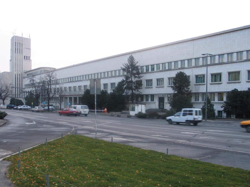 Government building of the Vojvodina autonomous region in Novi Sad, Serbia